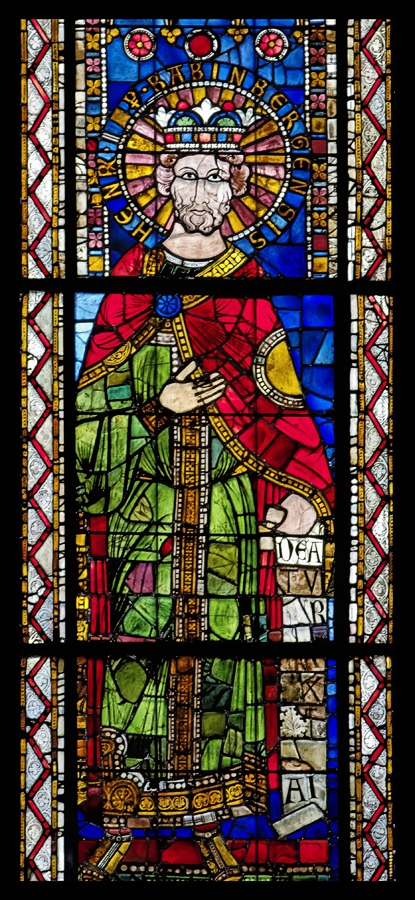 Romanesque stained glass depiction of Henry II, Holy Roman Emperor; Cathedral of Our Lady of Strasbourg, France